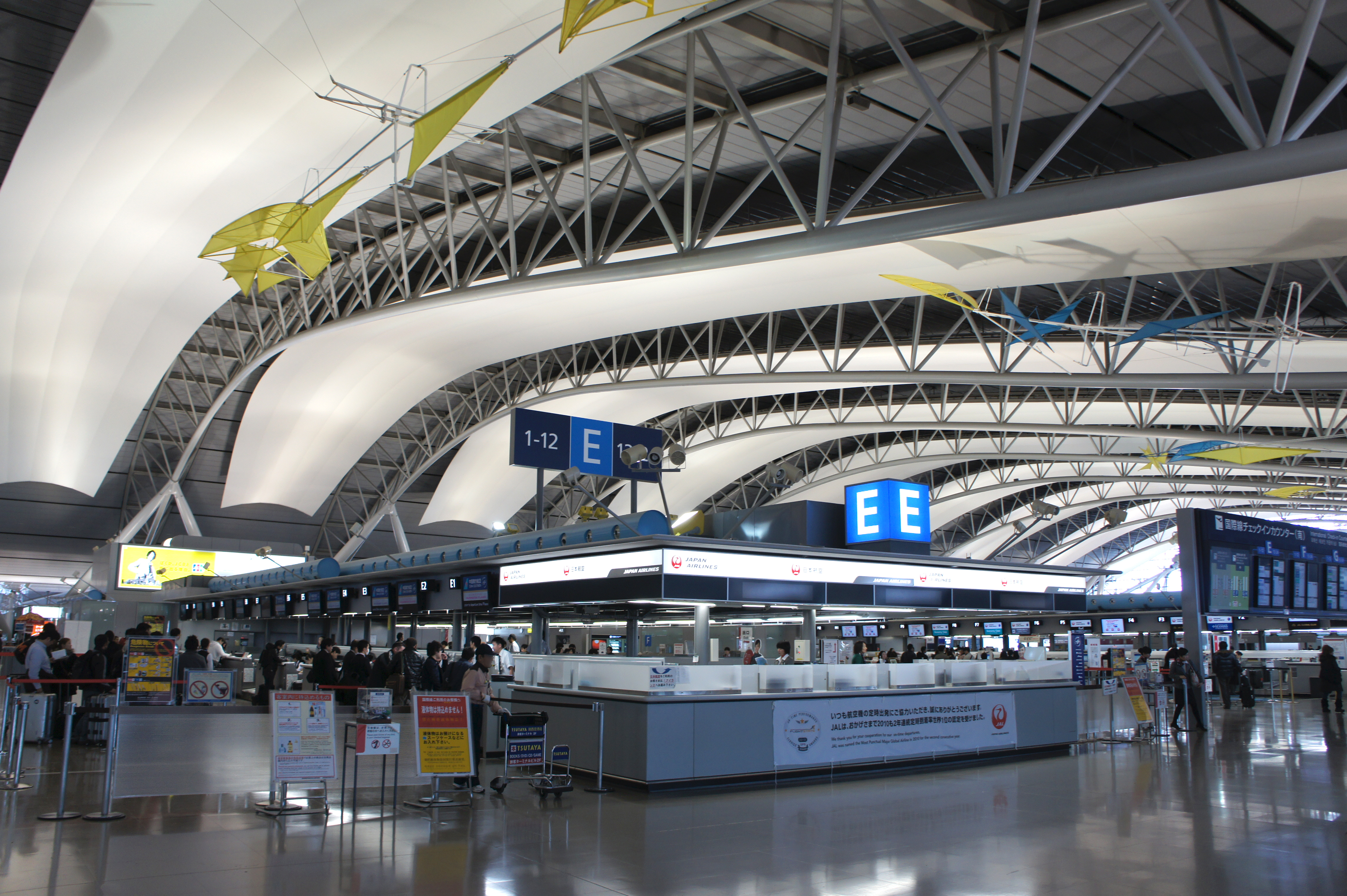 Kansai International Airport Departures,Izumisano-City Osaka Japan.